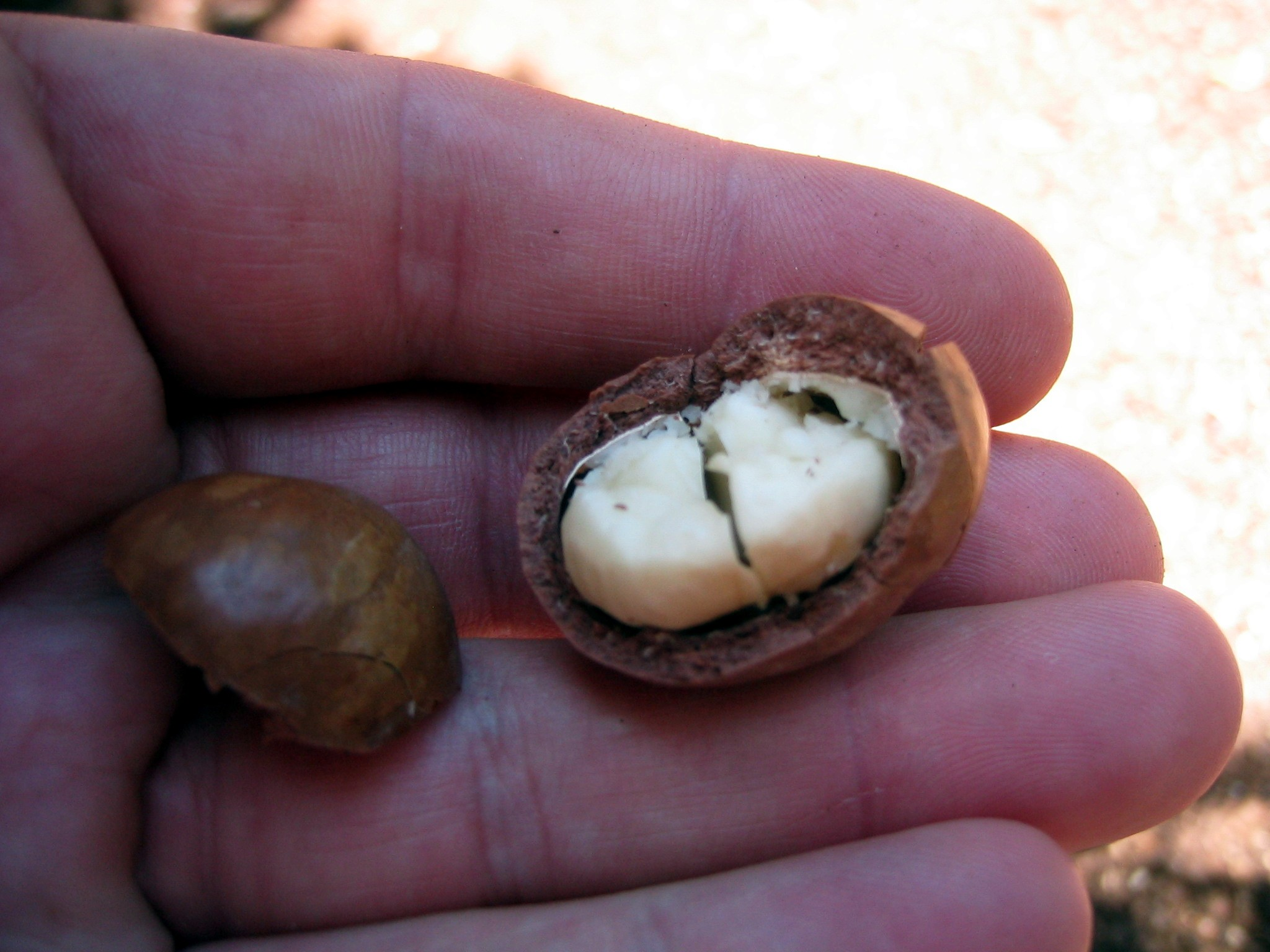 A Macadamia nut